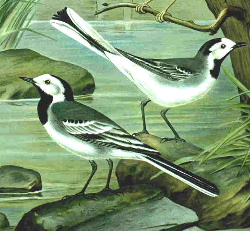 white wagtail Image from